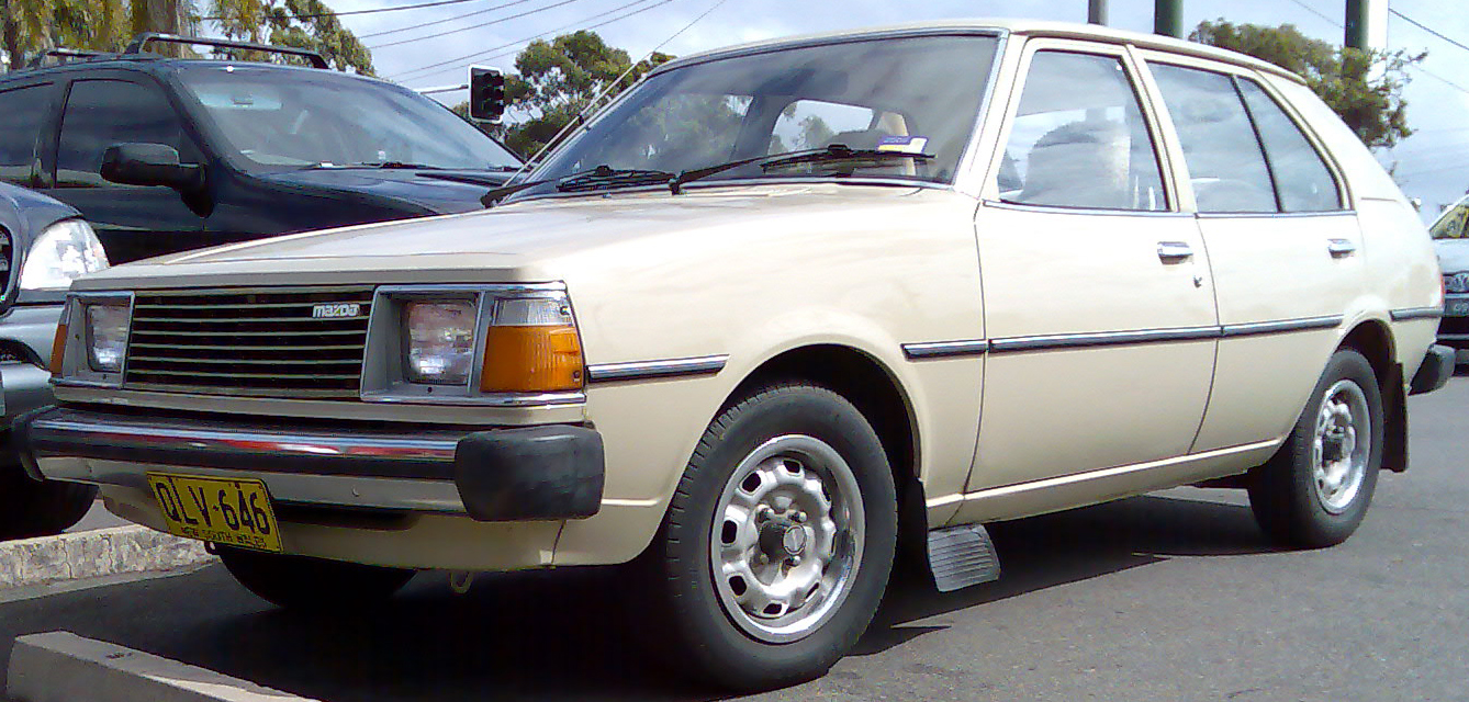 1980 Mazda 323 (FA4TS) 1.4 hatchback. Photographed in Gymea, New South Wales, Australia.